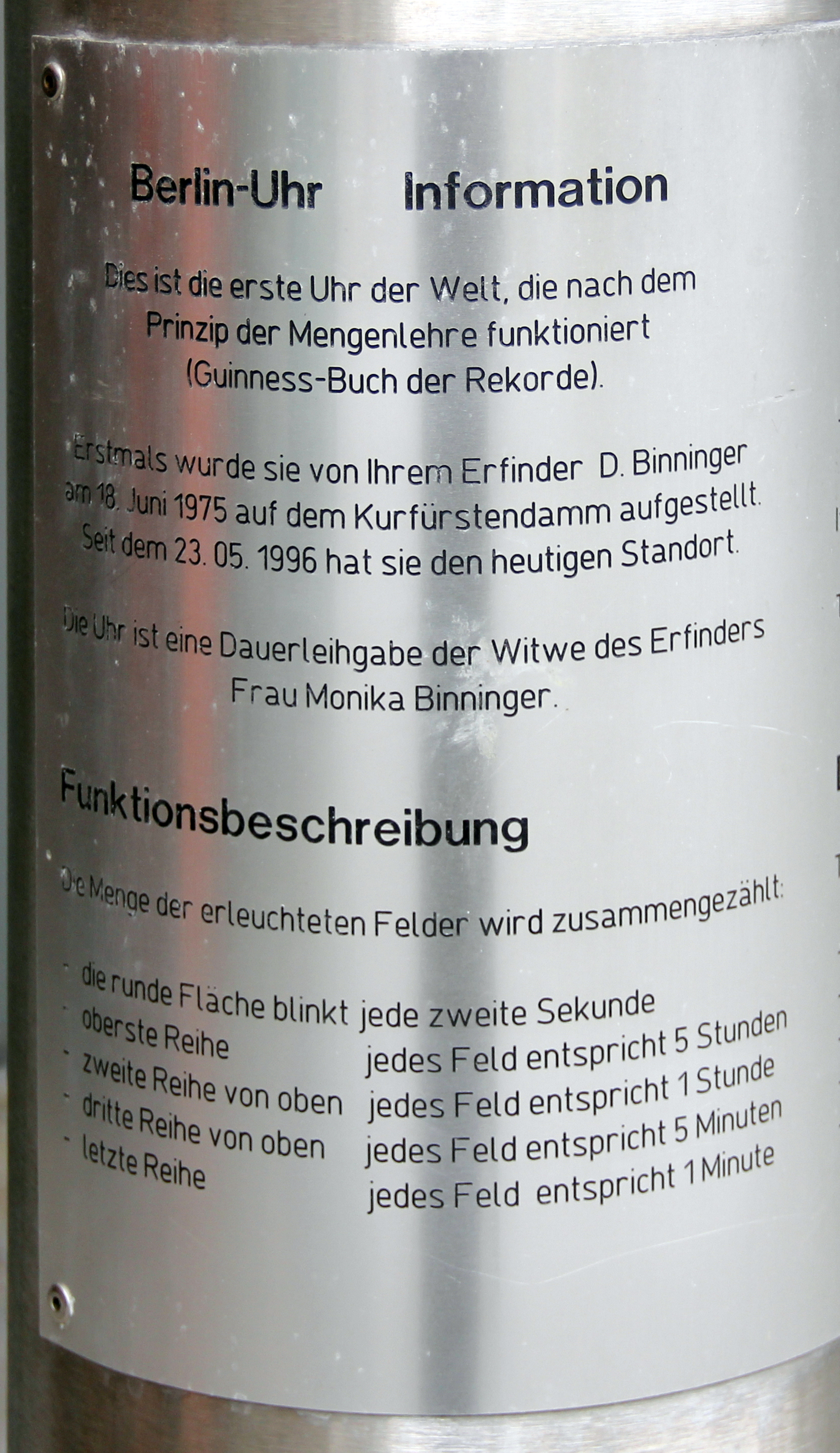 Memorial plaque, Berlin-Uhr by Dieter Binninger, 1975, Budapester Straße 45, Berlin-Charlottenburg, Germany